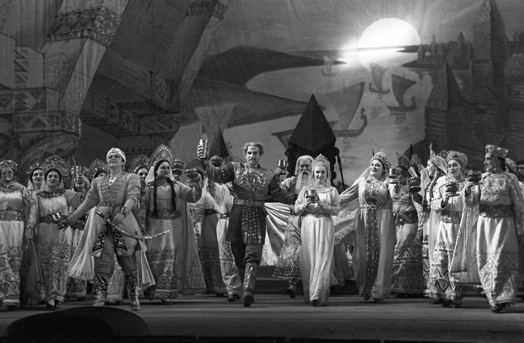 “Glinka's Ruslan and Lyudmila in the State Academic Bolshoi Theater of the USSR”. A scene from the second act of Ruslan and Lyudmila, a Russian opera by Mikhail Glinka, staged by the Bolshoi Theater.